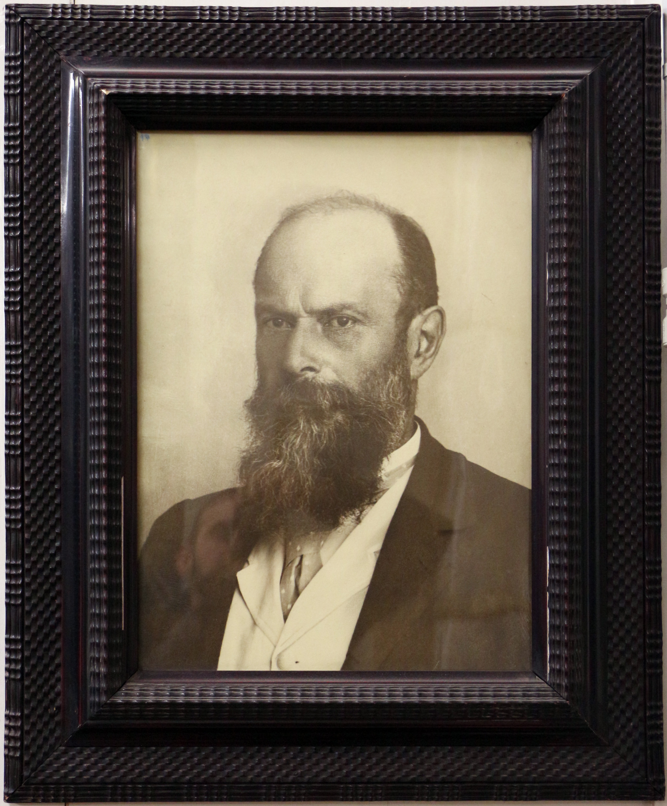 Museo di storia naturale (Florence) - Botany section